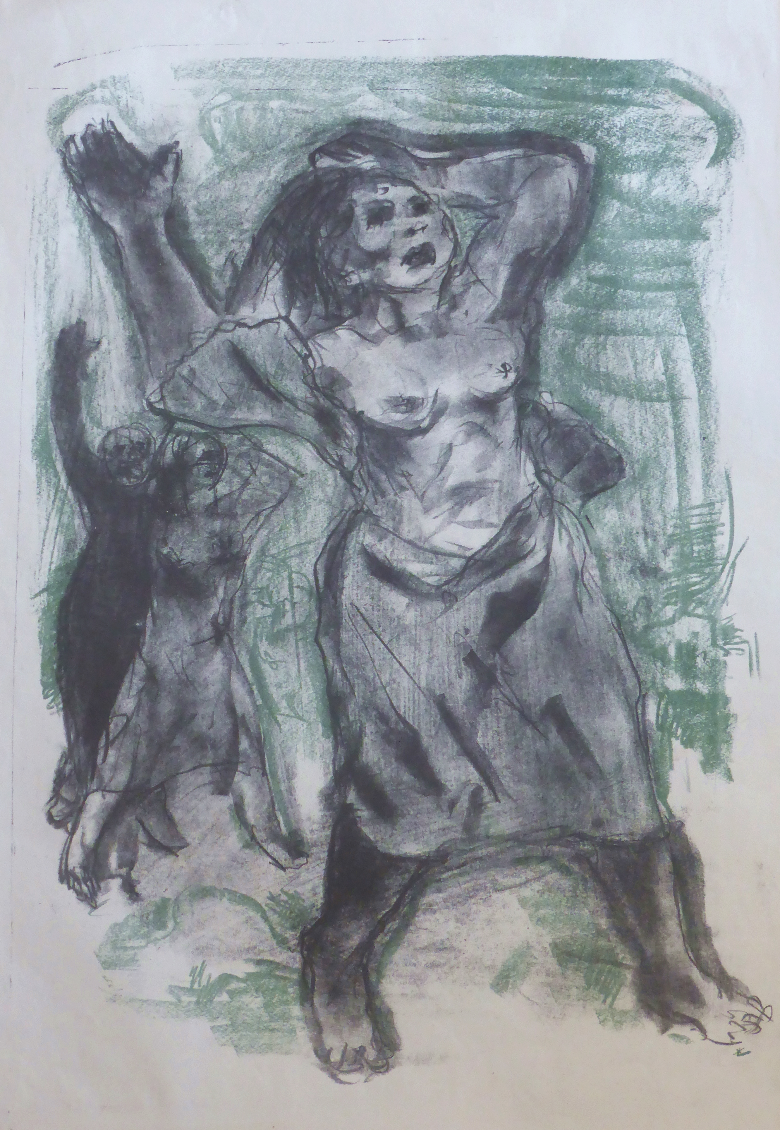 Georg Alfred Stockburger: Capitulation